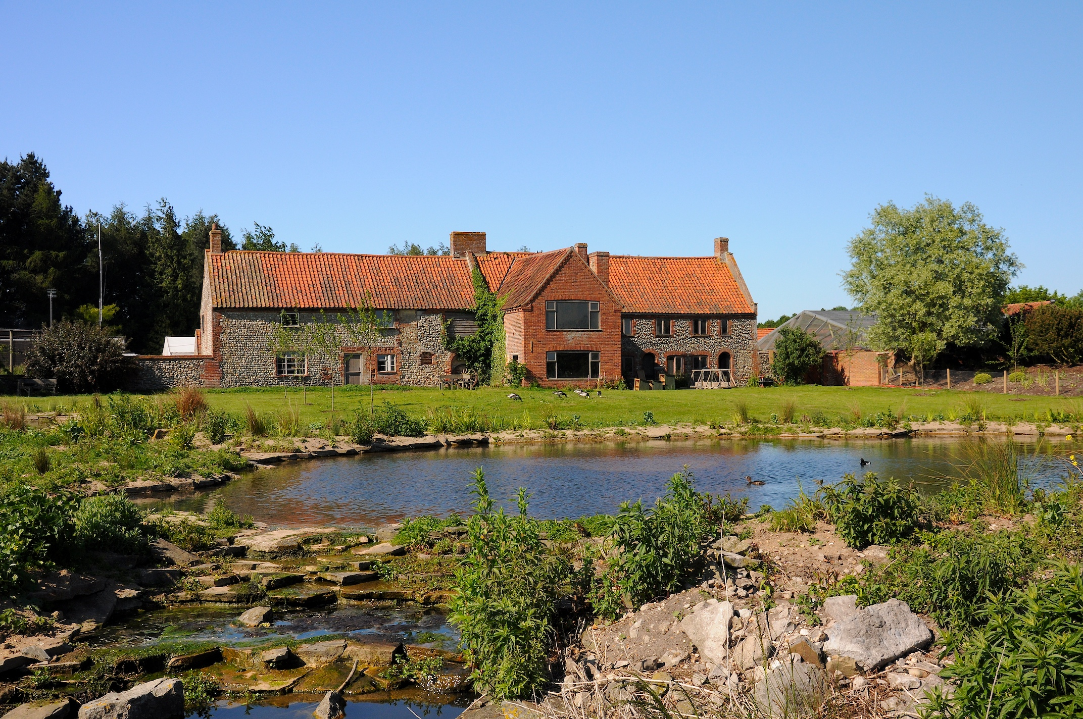 Pensthorpe Nature Reserve, near Fakenham, Norfolk, England